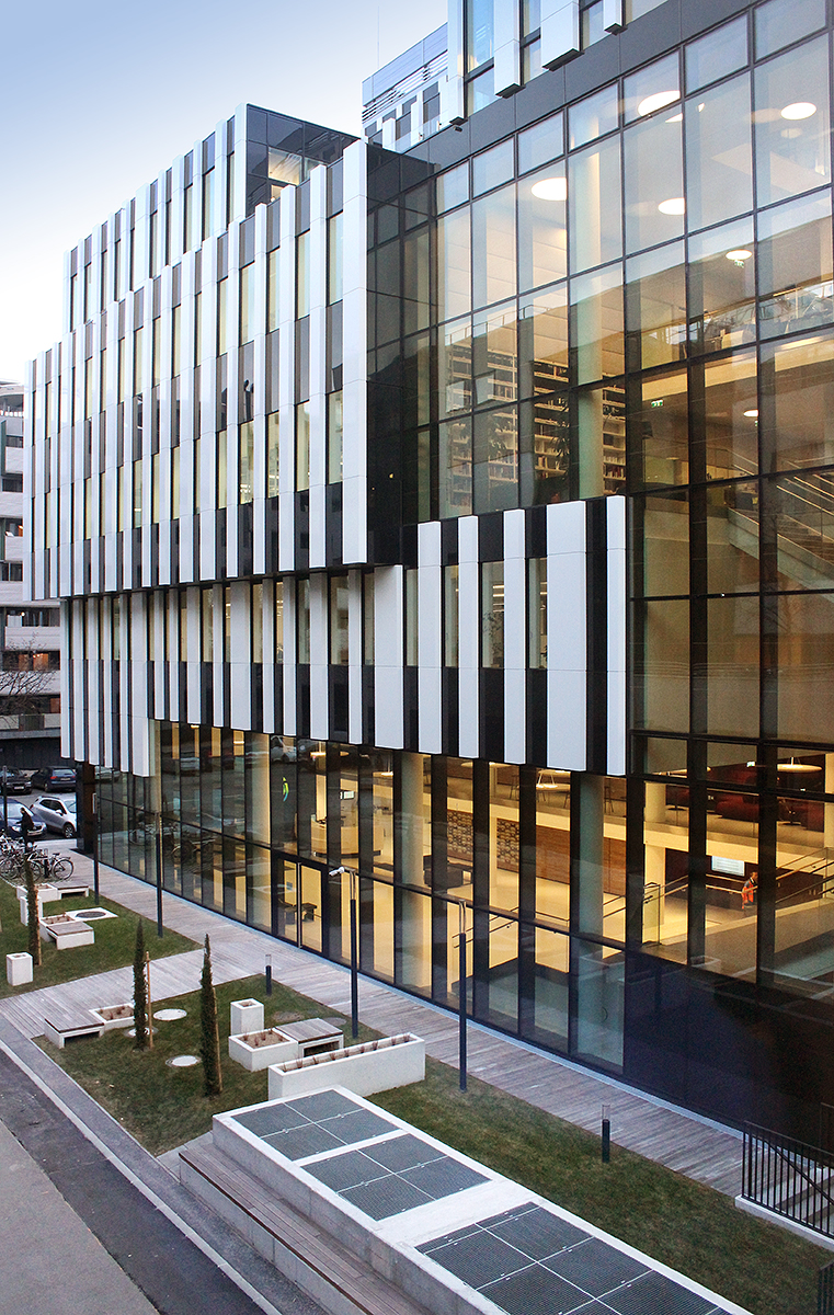 Research Institute of Molecular Pathology (IMP) at Vienna Biocampus (VBC), outside view.